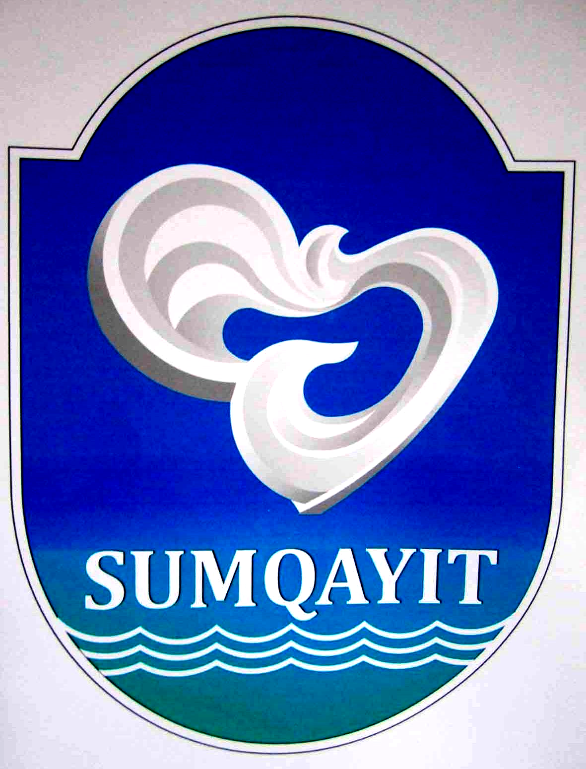 Coat of arms of Sumgayit